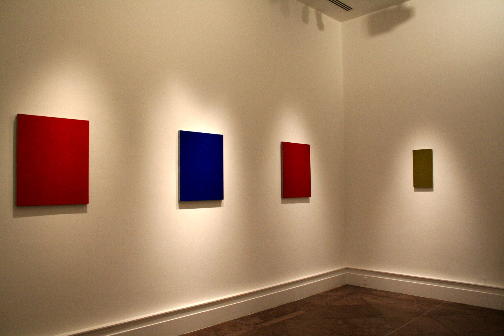 This photograph shows some painting by Alfonso Fratteggiani Bianchi at the Albright-Knox Art Gallery in Buffalo, NY, USA.